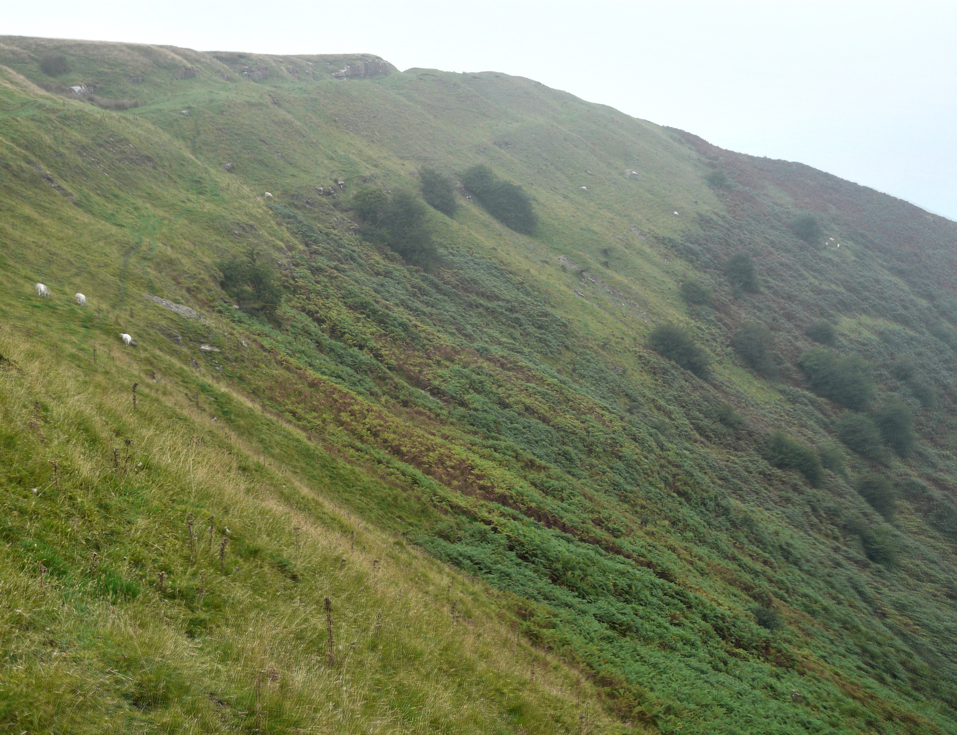 Just below the summit of The Blorenge in the Brecon Beacons. Some mild HDR processing has been used.